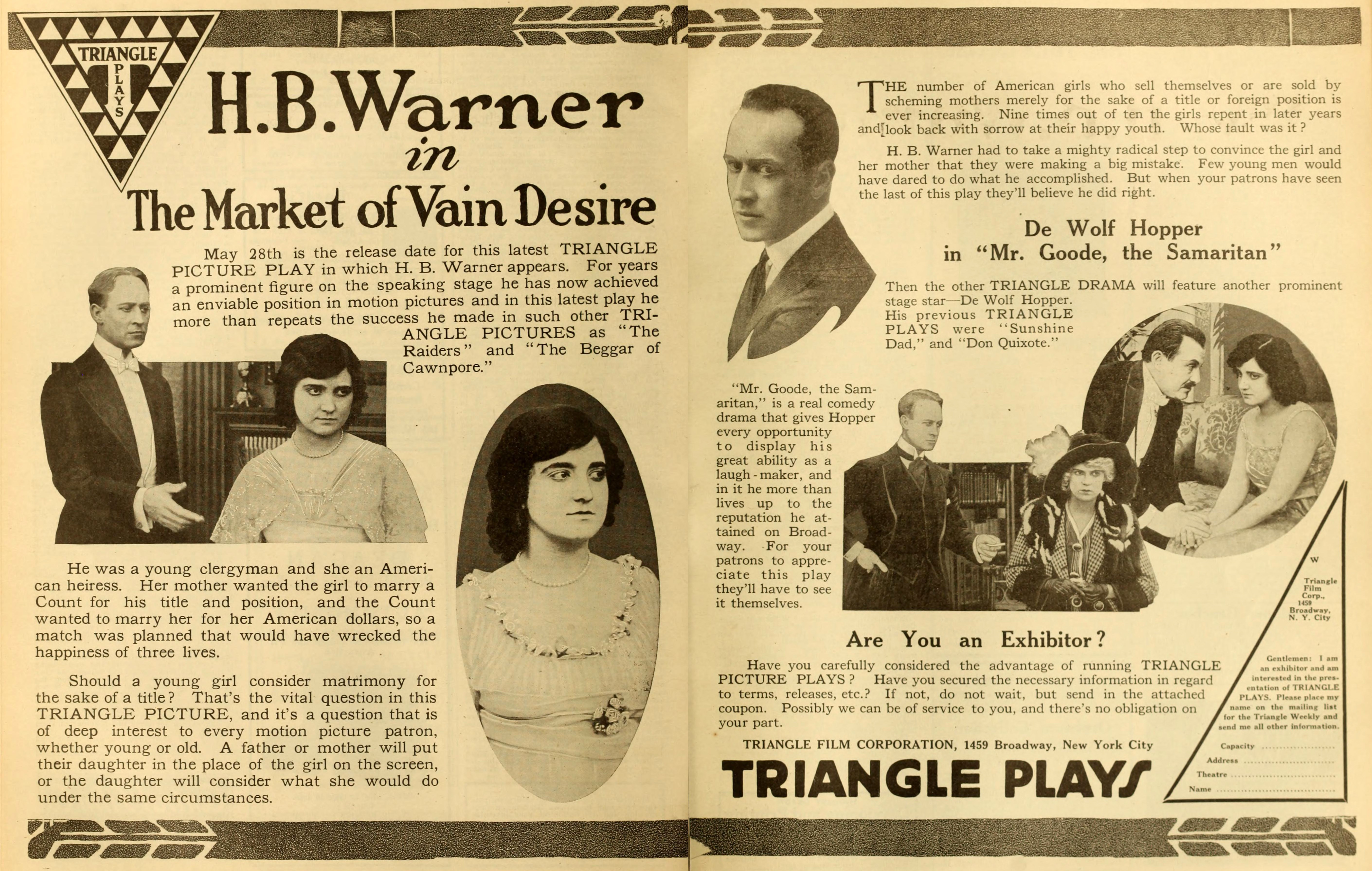 Advertisement in The Moving Picture World for the American film The Market of Vain Desire (1916).